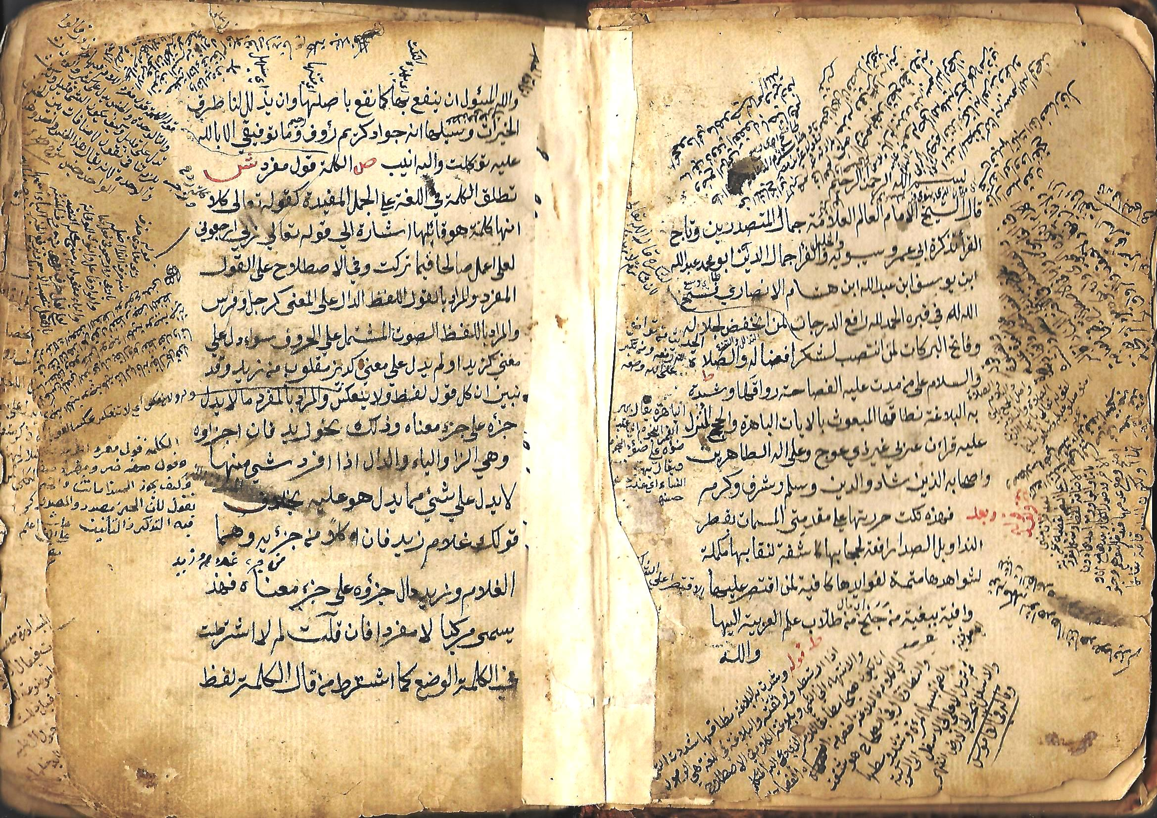 A book entiteld "Sharah qatar alnadaa wabal alsda" written by "Jamal al-Din Ibn Hisham Al-Ansari". The manuscript was copied in Baghdad in 1240 AH/1824, and its a part of Mullah Qasim Effendi Al-Mufti s collection